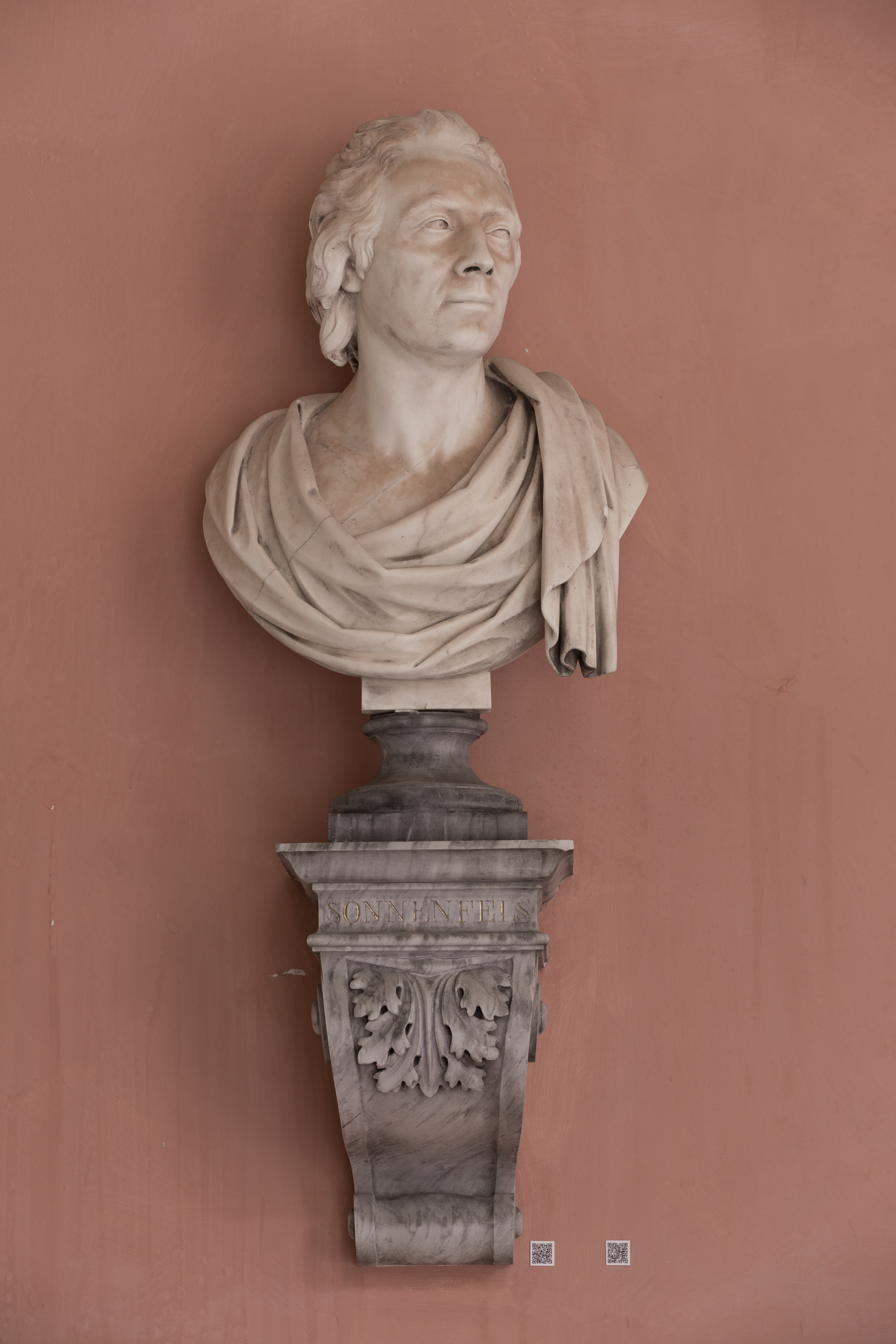 Joseph von Sonnenfels, bust(white marble) in the Arkadenhof of the University of Vienna, (Maisel# 4 ). Artist: Alois Düll (1843-1900), unveiled 1891